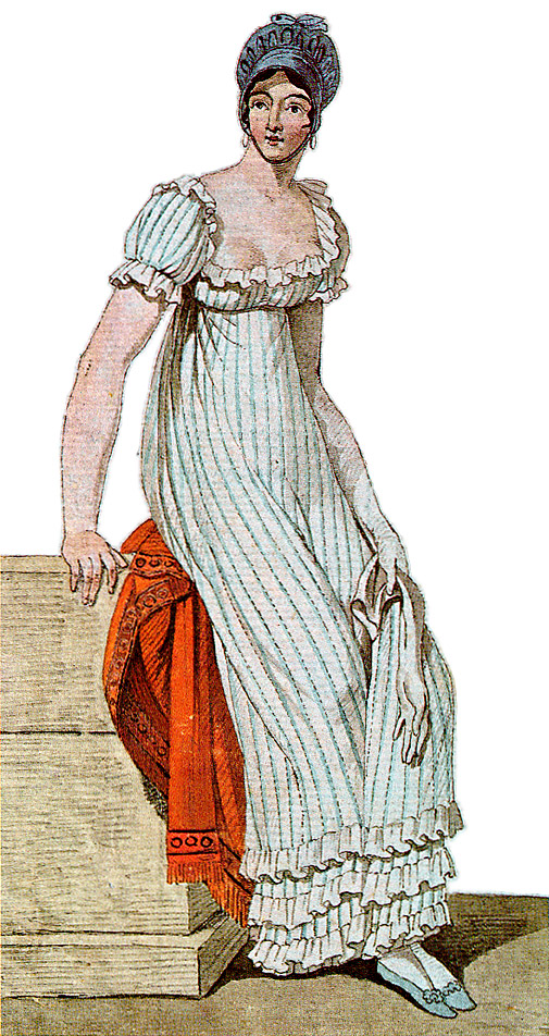 1810 watercolor sketch of woman in "Schute" bonnet and blue-striped empire-style dress with flounces, by Johann Adam Klein. (She's sitting on her red shawl to keep her dress clean, and has one glove pulled off.) Notice her arms -- too-thin arms were not admired in women during this historical period.